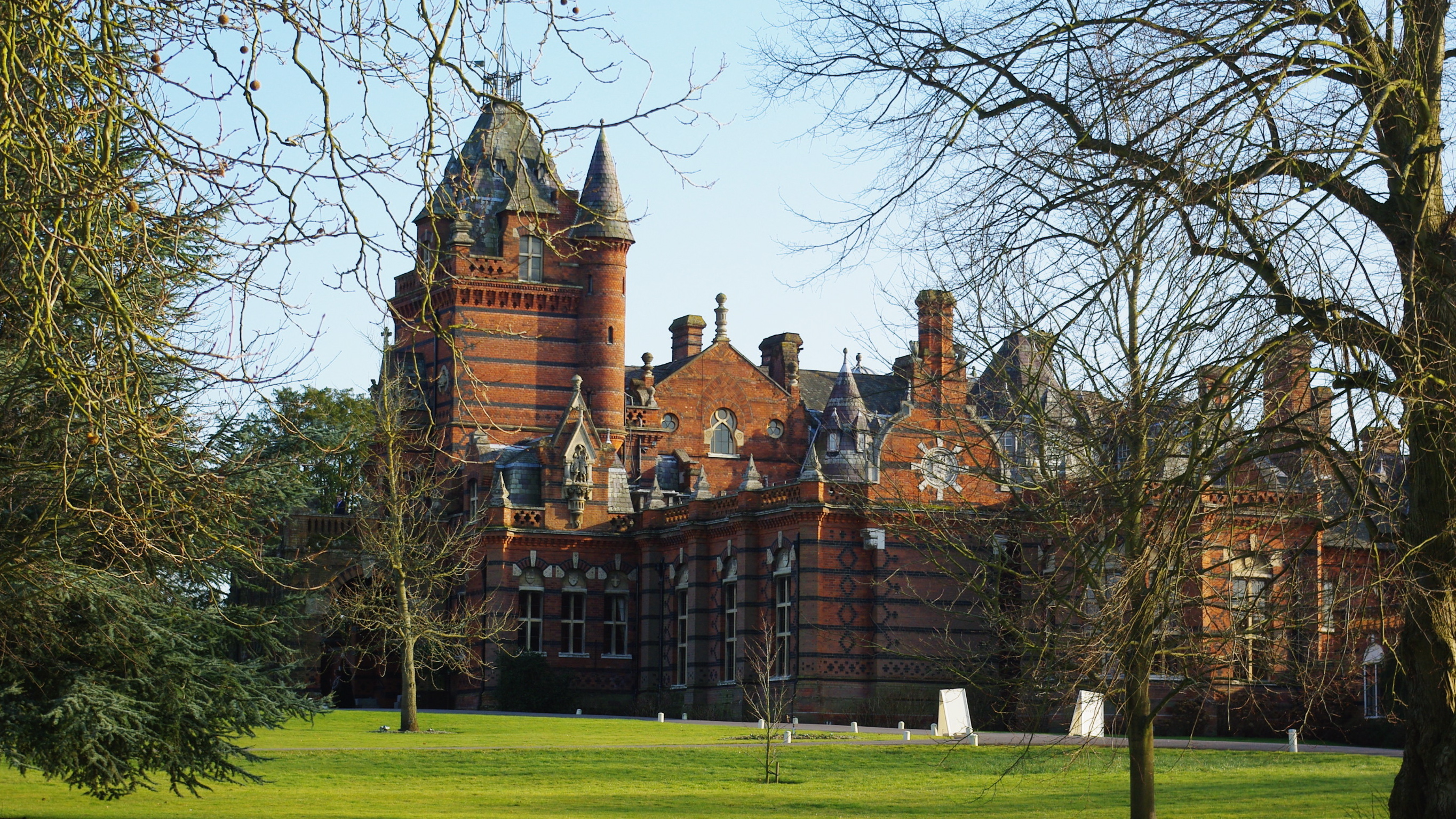 Elvetham Hall Built 1859-62 in Victorian High Gothic style. Now an hotel.